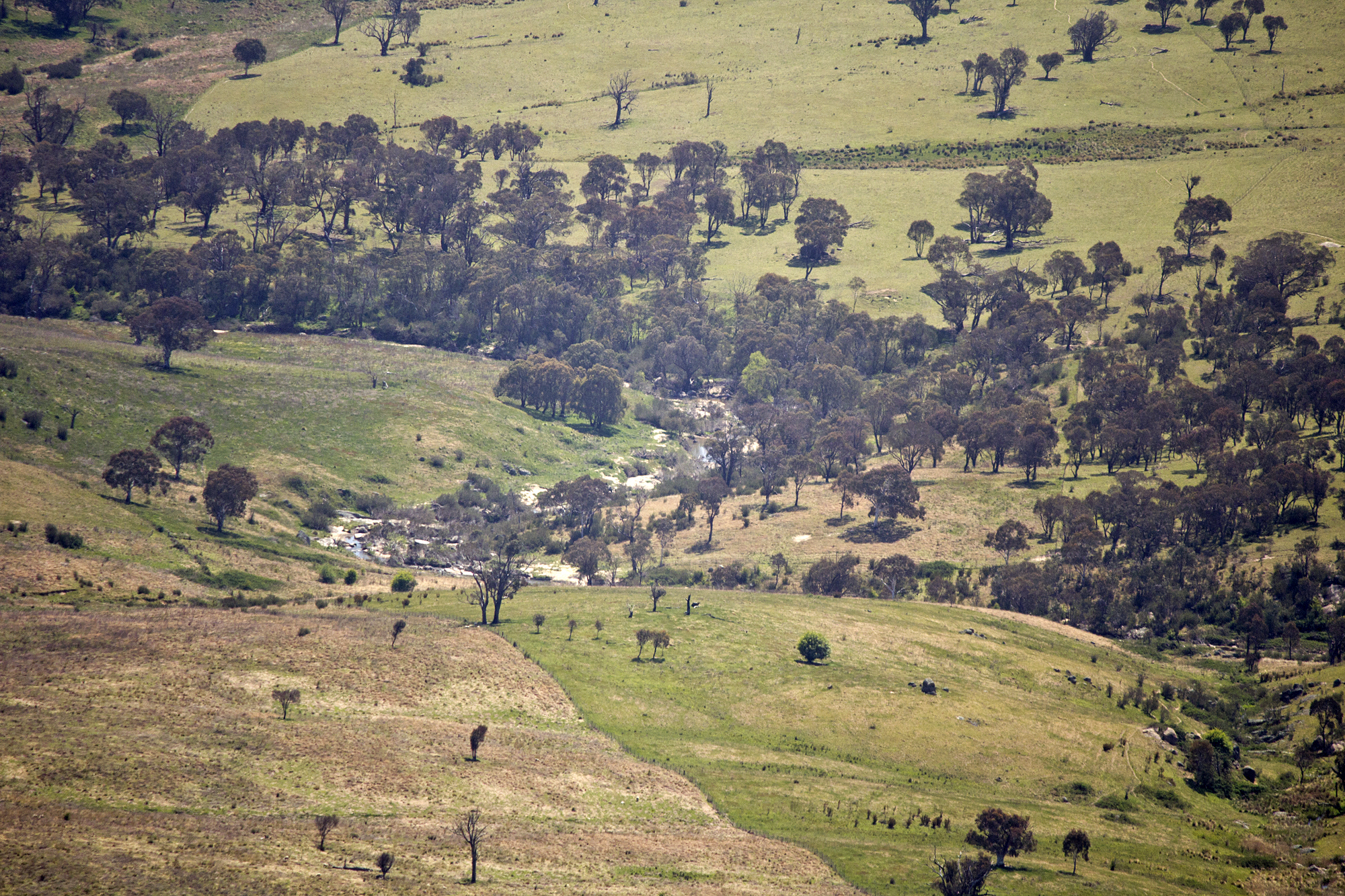 Paddys River viewed from Gibraltar Peak, taken during a hiking tour as part of Australian Capital Tourism's Human Brochure.